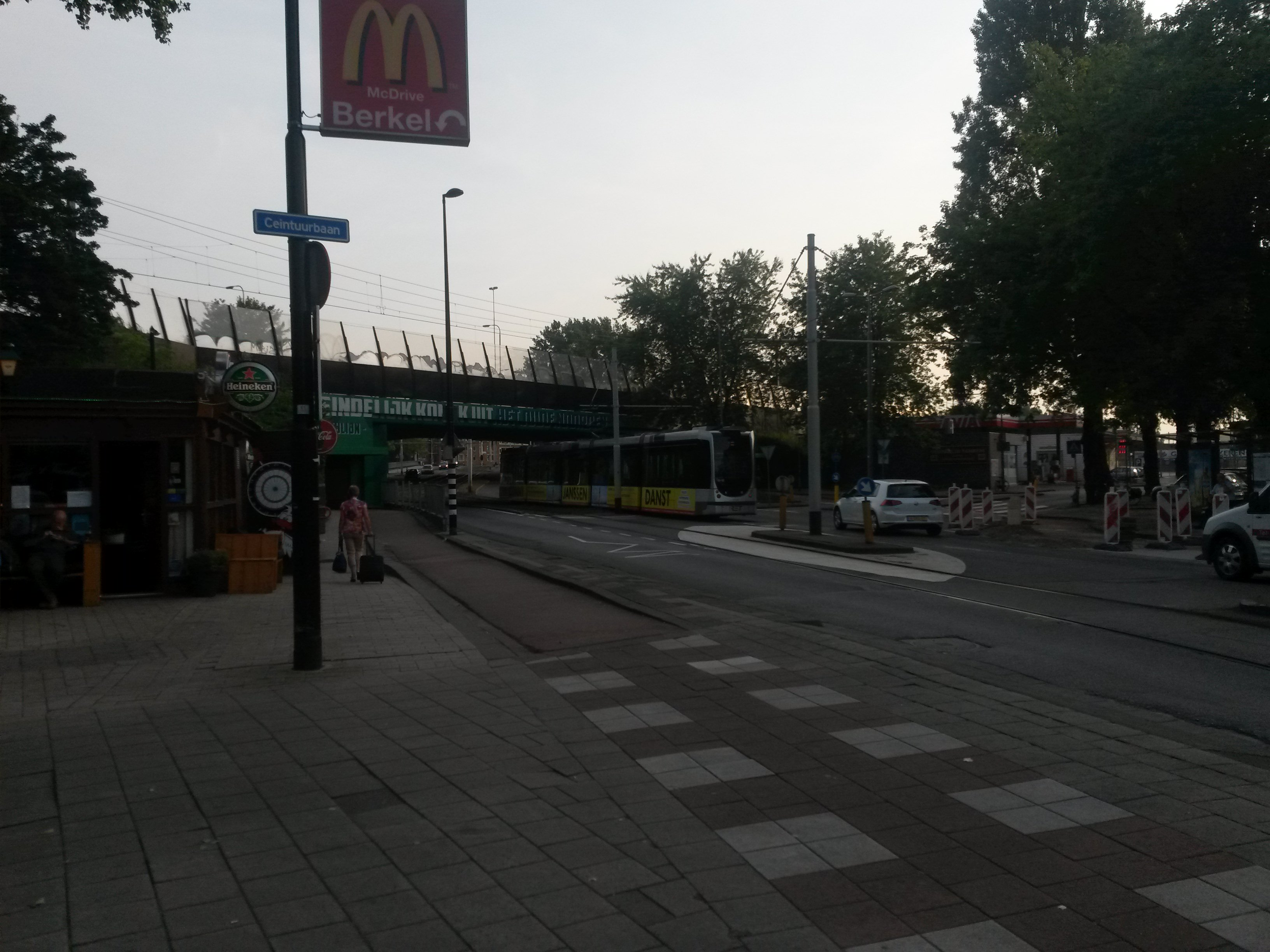 "Het Muizengaatje" near Hillegersberg